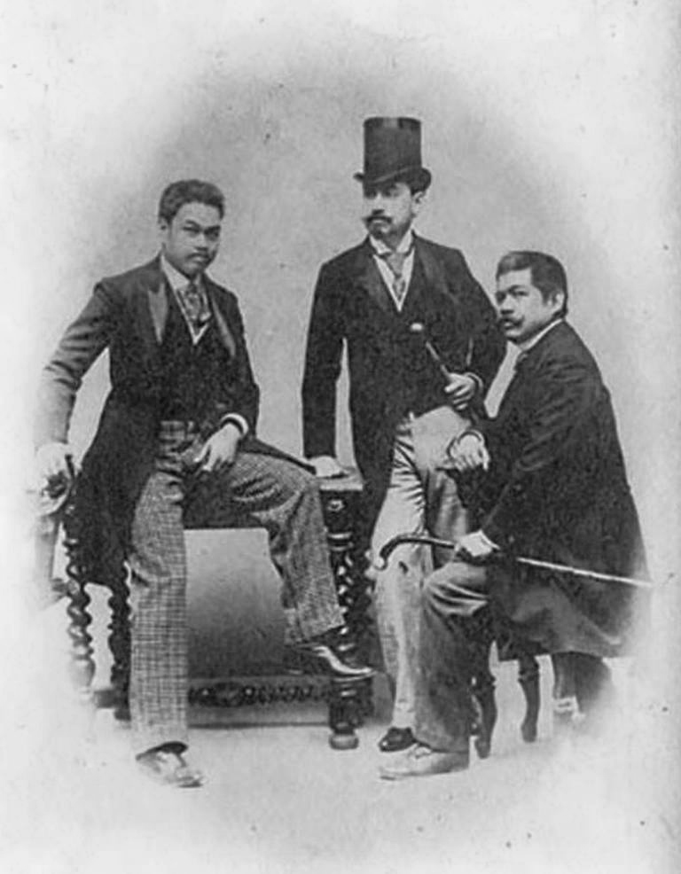 Antonio Luna, Eduardo de Lete and Marcelo H. del Pilar, ca. 1890. (Filipiniana Division, Main Library, University of the Philippines, Diliman)